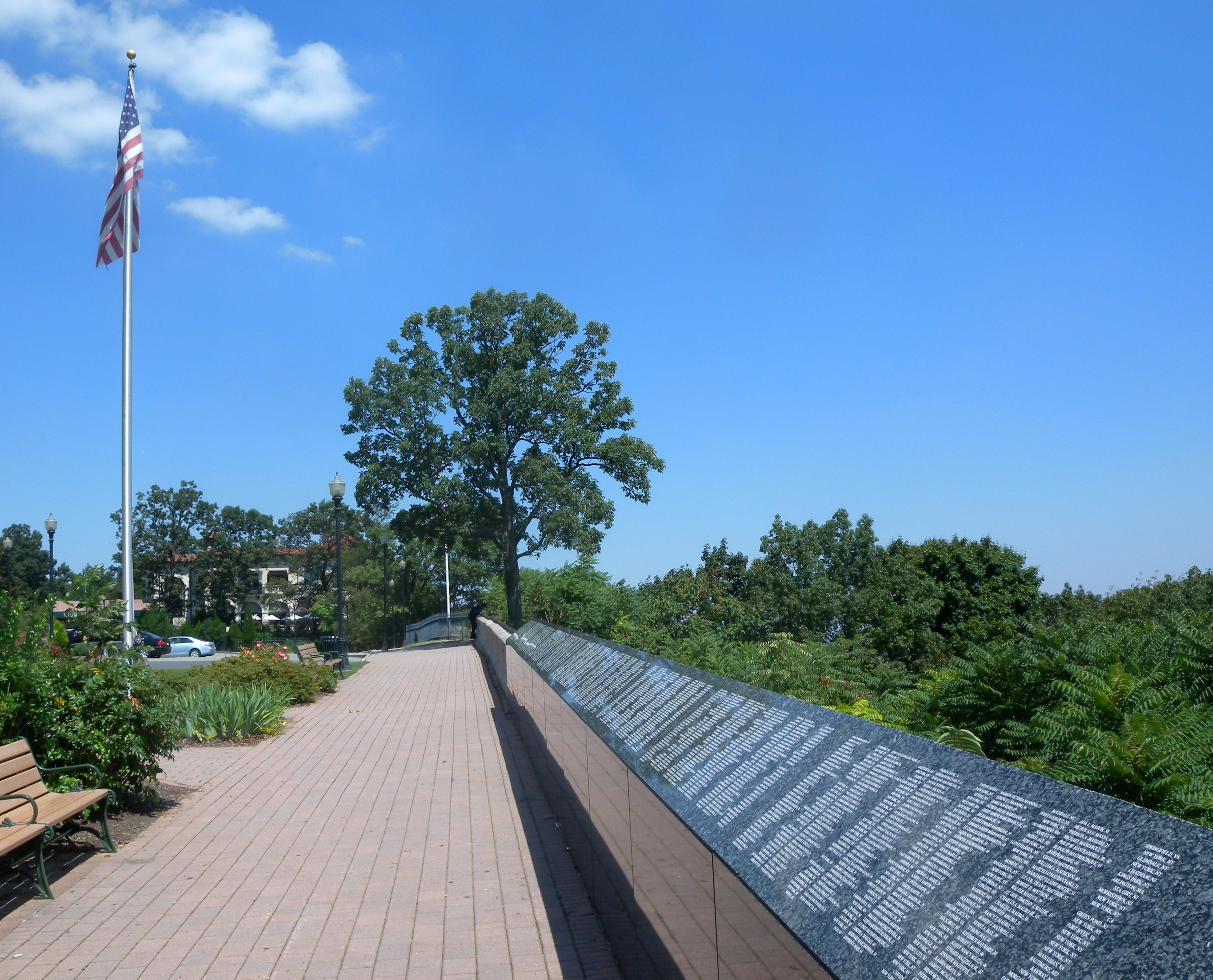 Looking north at list of names of 9/11 victims on a sunny midday.